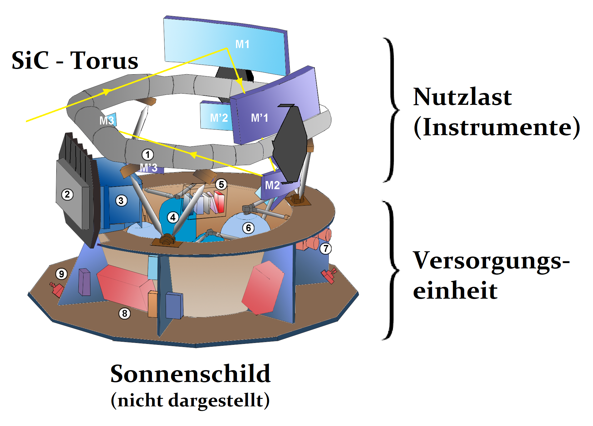 Diagram of Gaia without its 10-metre diameter sunshade: M1, M2 and M3: mirrors of telescope 1 M'1, M'2 and M'3: mirrors of telescope 2 Mirrors not shown: M4, M'4, M5, M6 1: Optical bench (silicon carbide torus) 2: Cooling radiator 3: Focal plane electronics 4: Nitrogen tanks 5: Diffraction grating spectroscope 6: Liquid propellant tanks 7: Star trackers 8: Telecommunication panel and batteries 9: Main propulsion subsystem.